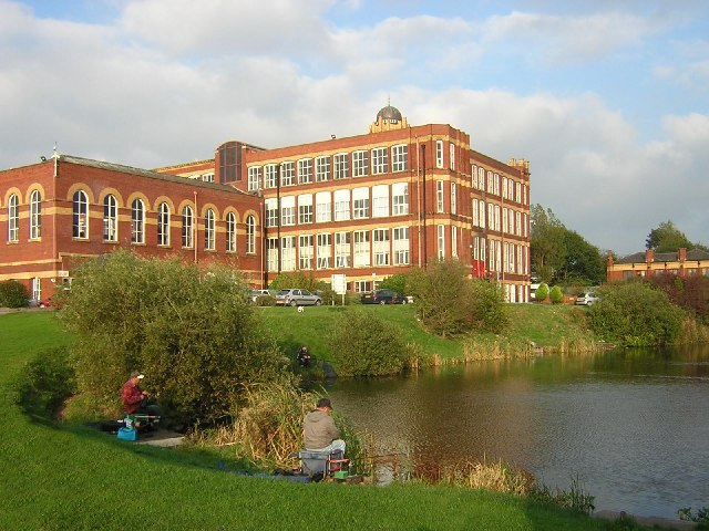 Coppull Enterprise Centre. With coarse fishing on the former mill lodge, and providing accommodation for a variety of small businesses, this fine former cotton mill on the outskirts of Chorley earns its Enterprising label.